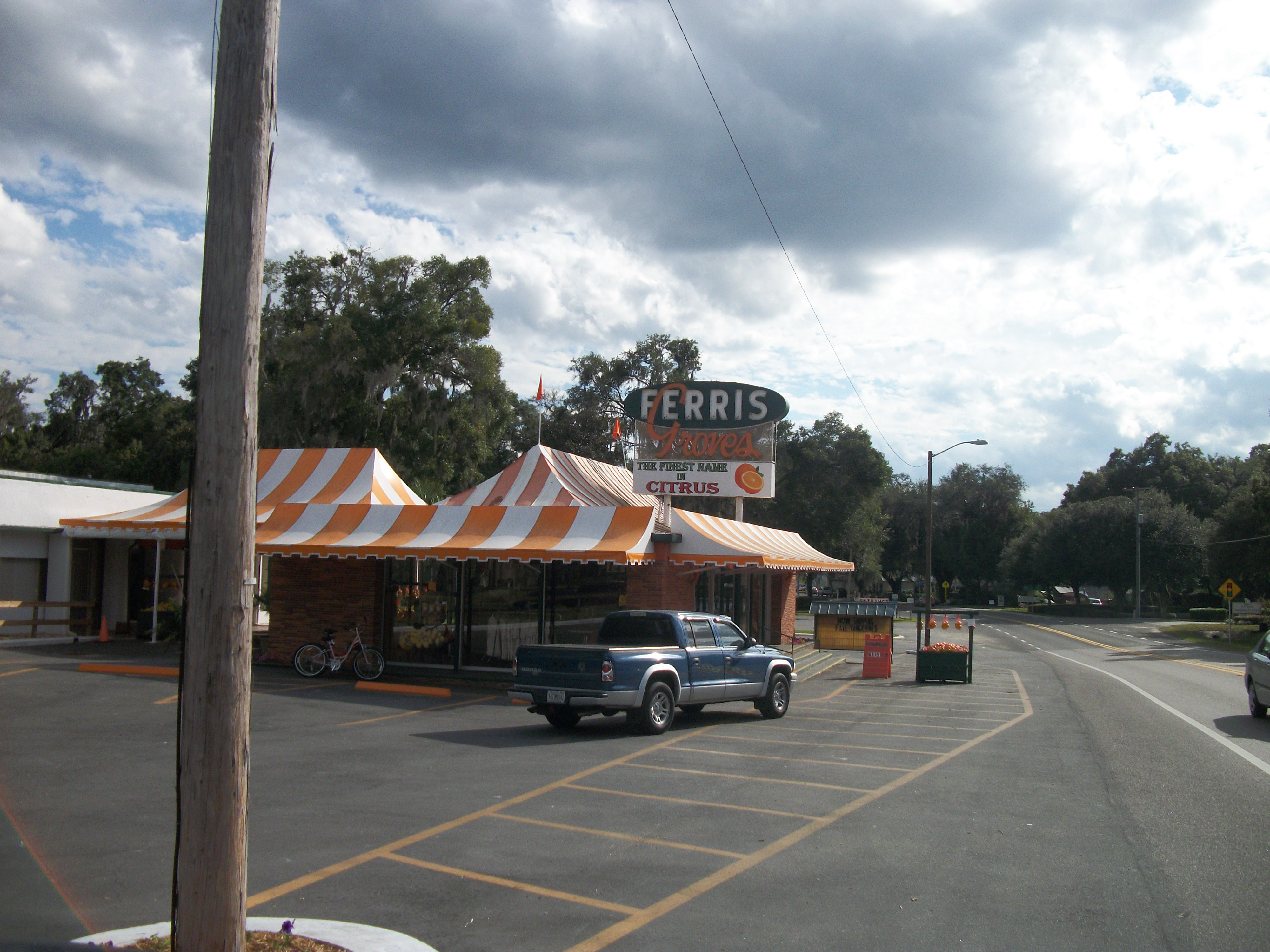 Ferris Groves on US 41 in Floral City, Florida.